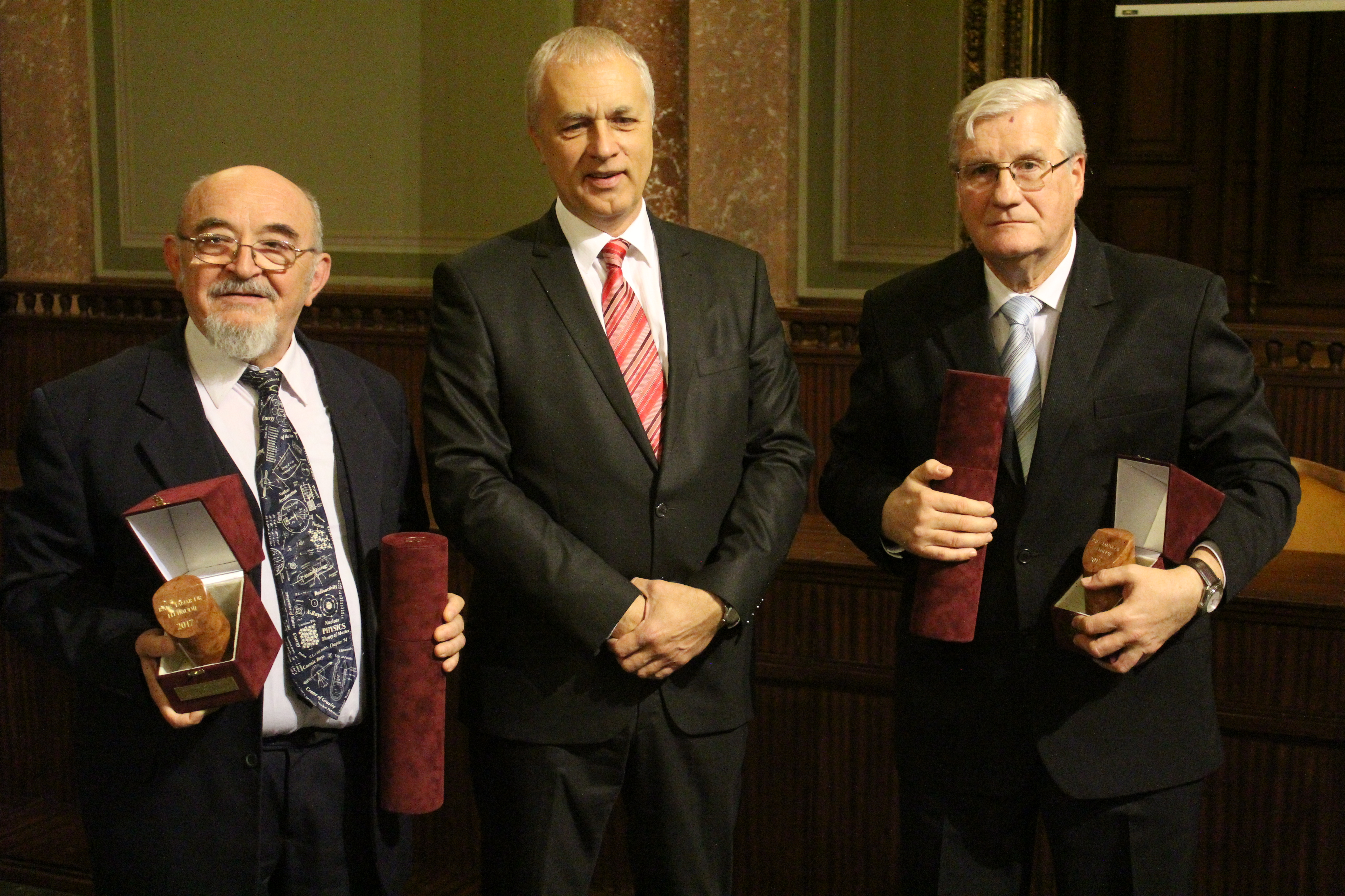 Dr. Piláth, Károly (left) and Mester, András (right) with Éry, Gábor